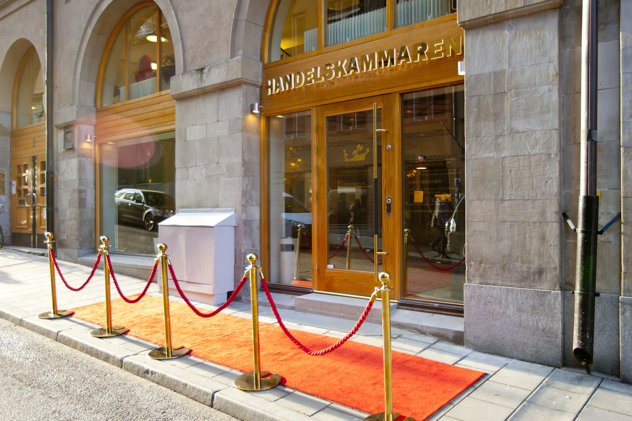 Stockholms Handelskammare, Brunnsgatan 2